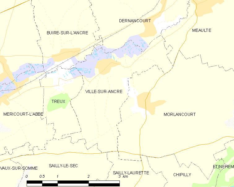 Map of French municipality Ville-sur-Ancre